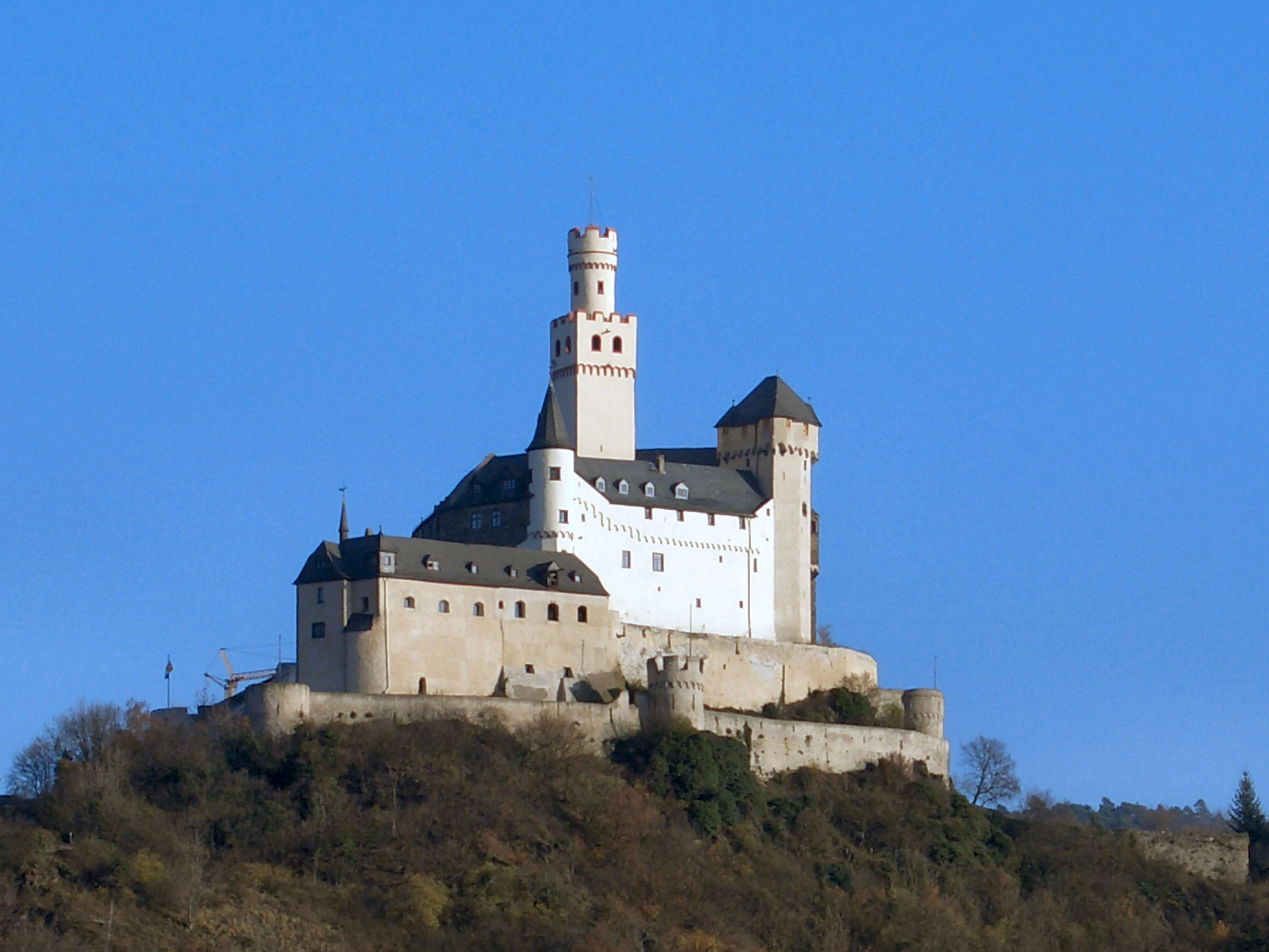 Marksburg – view from west